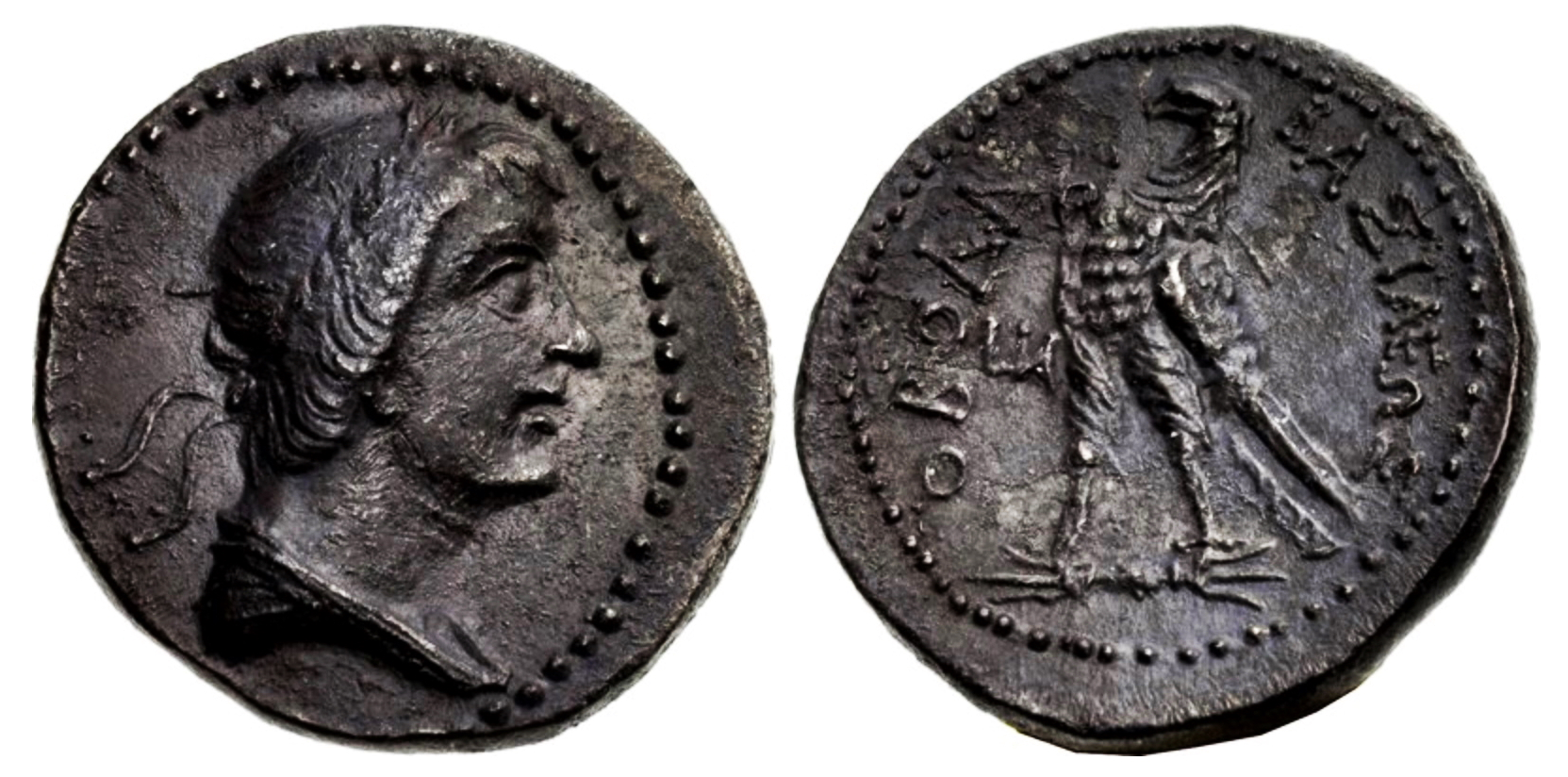 Silver Drachm of Obodas 1 from 86 BC (16 mm., 3.47 g.)